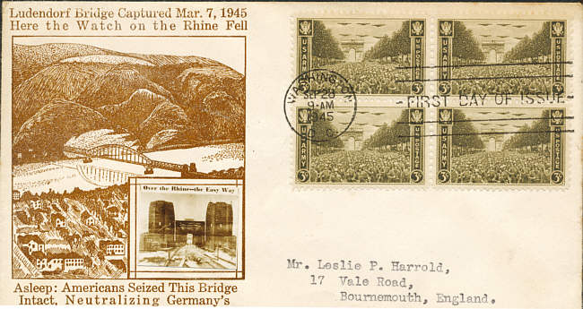 Ludendorff Bridge captured Mar 7, 1945. Here the Watch on the Rhine fell Asleep: Americans Seized the Bridge Intact, Neutralizing Germany's River Barrier